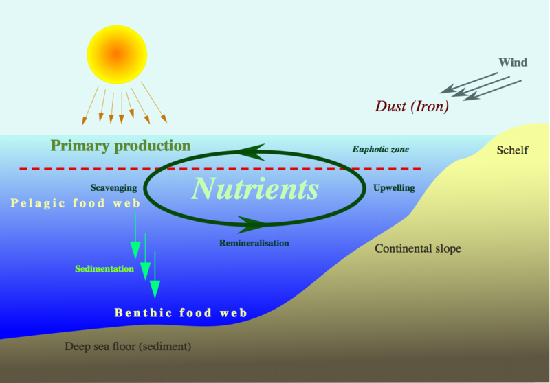 Grafic of the nutrient cycle in the marine realm